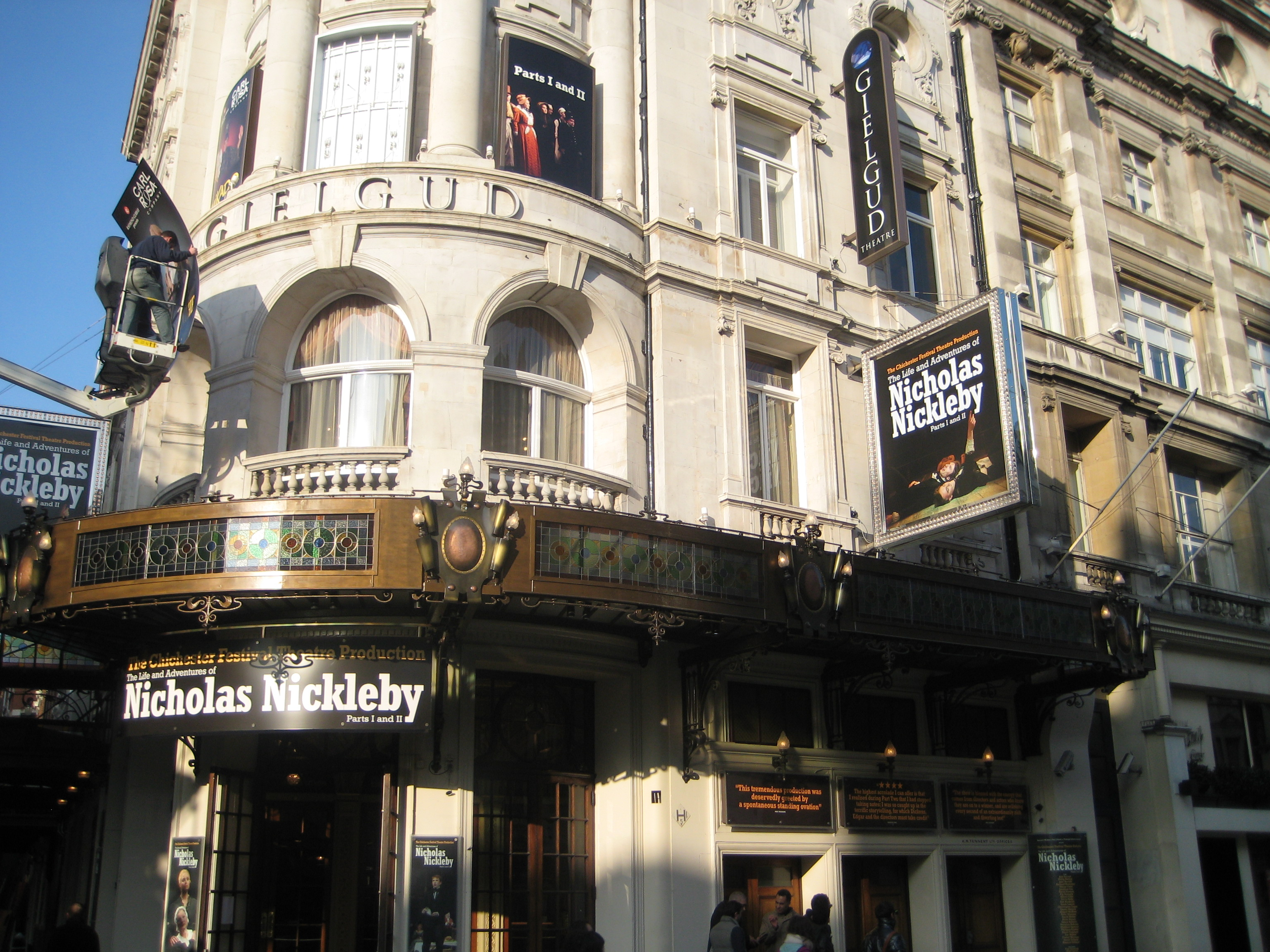 Gielgud Theatre, London